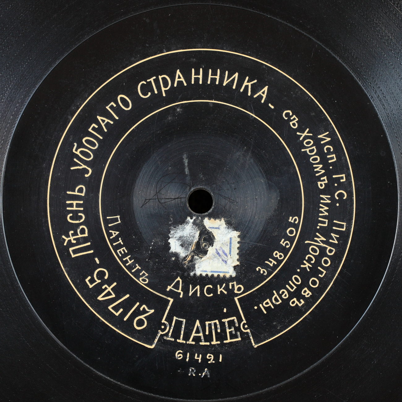 Grigory Stepanovich Pirogov